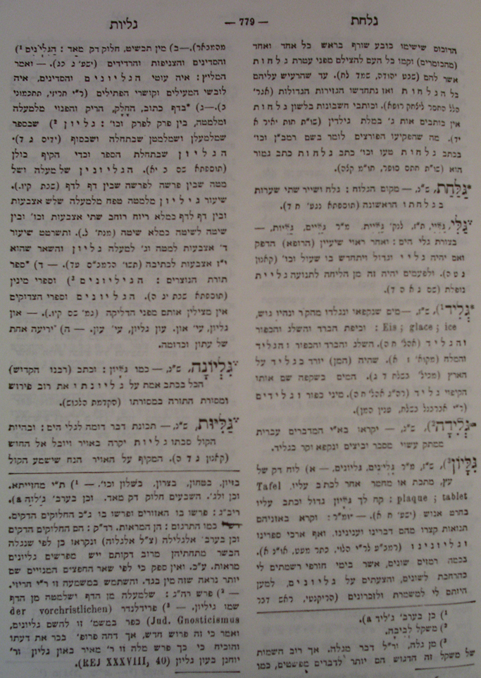 A page from the Ben-Yehuda dictionary, written at 1908.